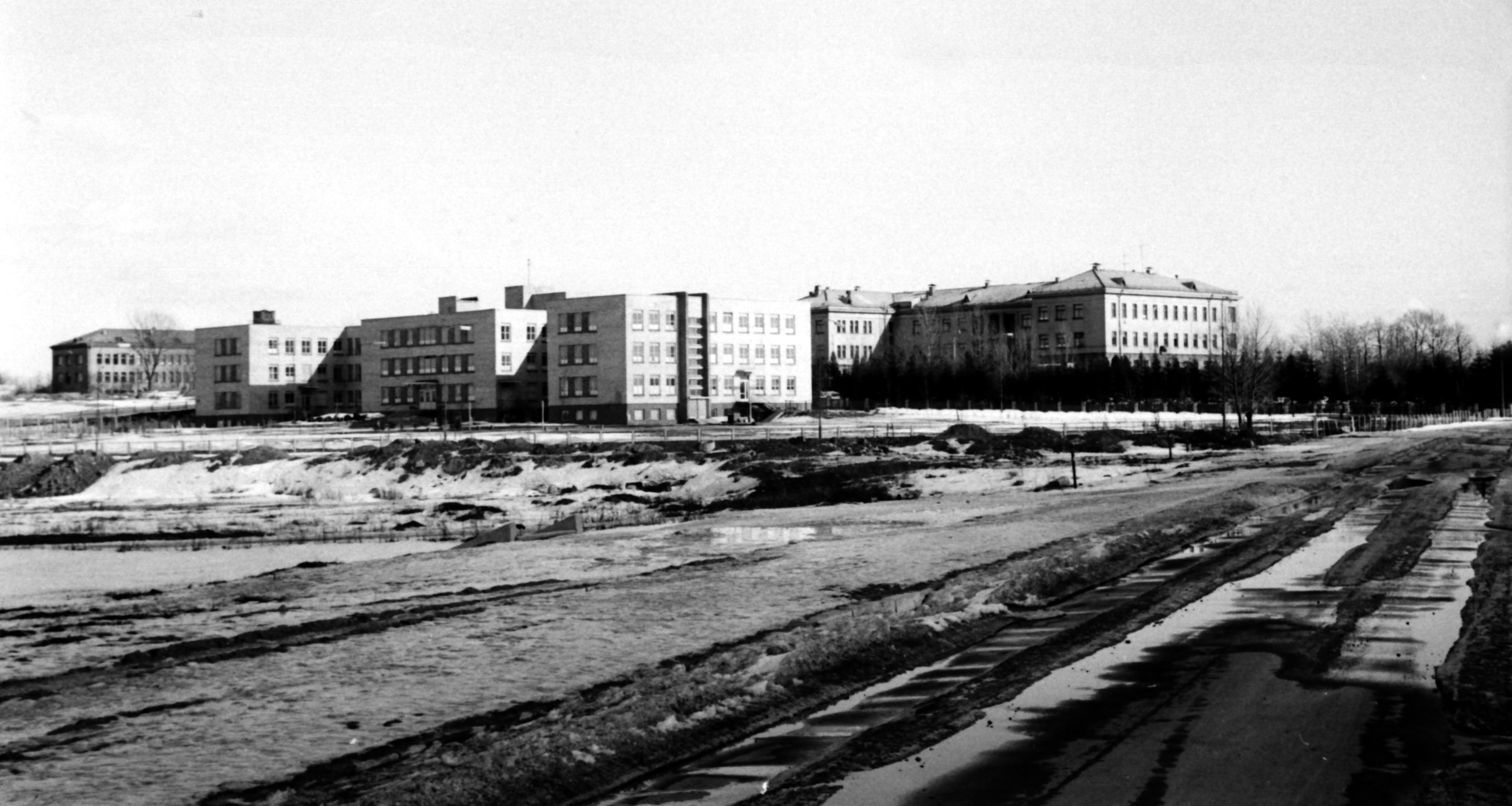 Health care center in Šiauliai, Lithuania